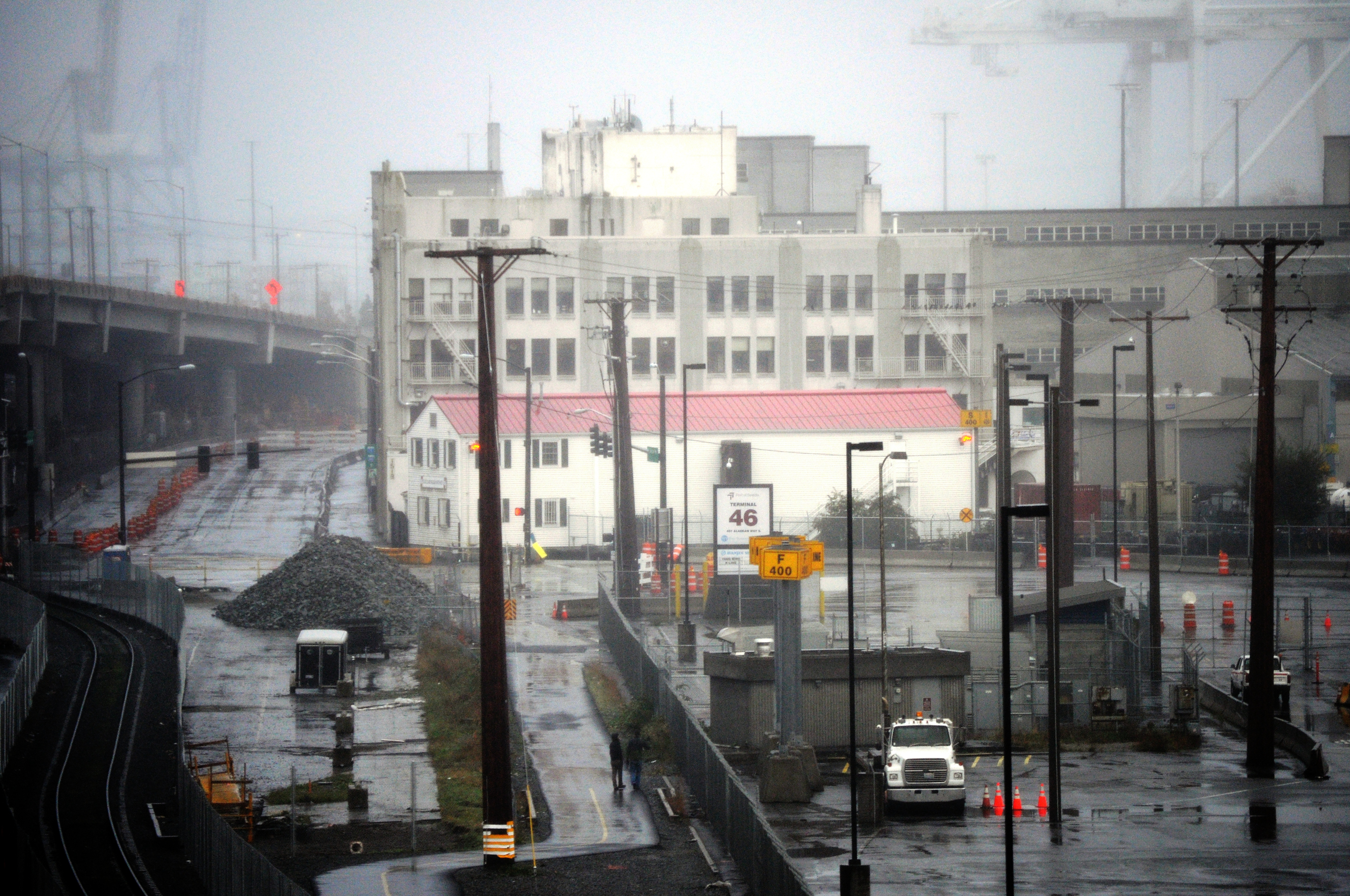 Coast Guard Museum/Northwest and Coast Guard Station, Seattle, Washington, USA, seen from Alaskan Way Viaduct on First Avenue South near S. Charles Street. Taken on a day when part of the viaduct was opened to pedestrians during the process of the demolition of the segment visible here. Uploaded an equalized version because it was such a misty/rainy day.